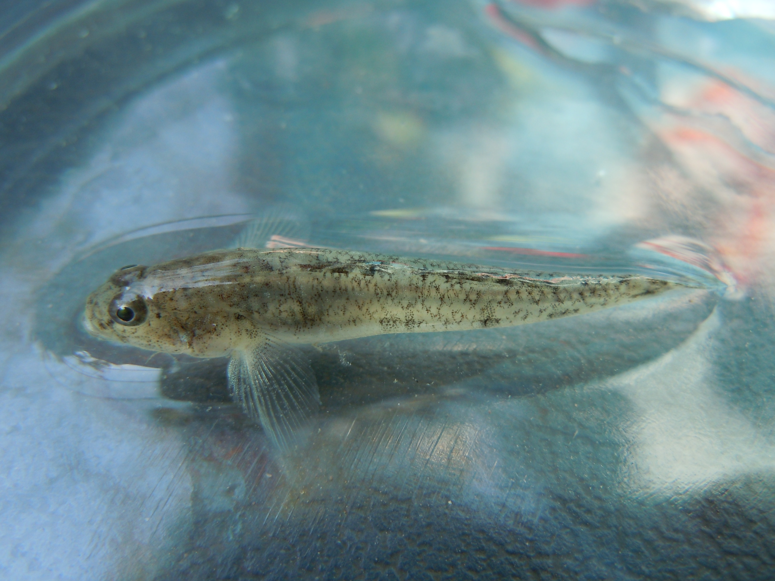 Longtail dwarf goby (Knipowitschia longecaudata) from the Dnieper Estuary, Ukraine